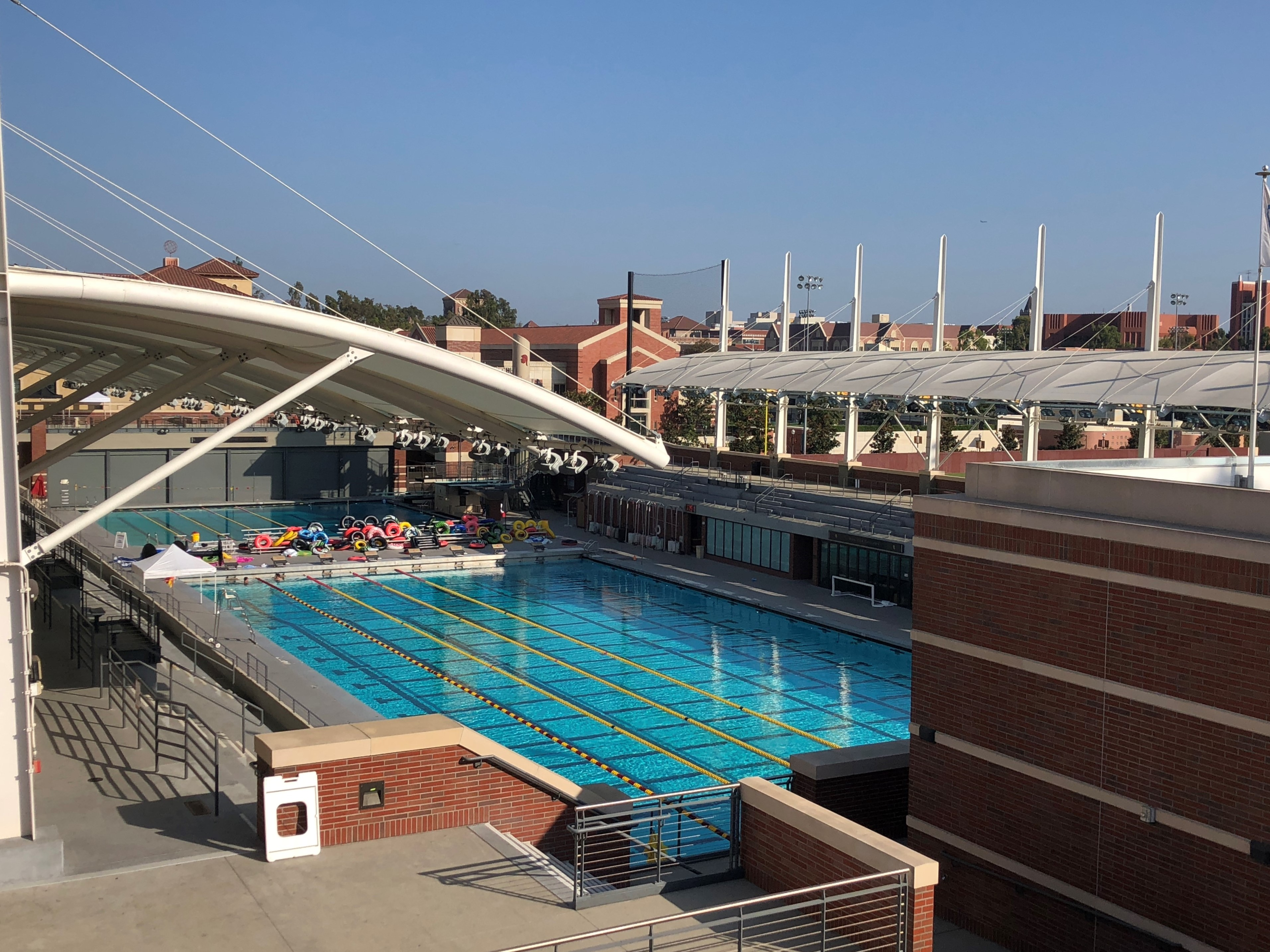 Uytengsu Aquatics Center Competition and Dive Pool